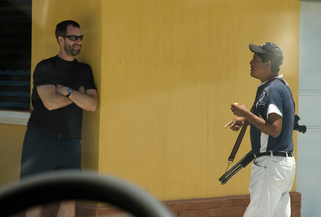 Private security guard in Guatemala.